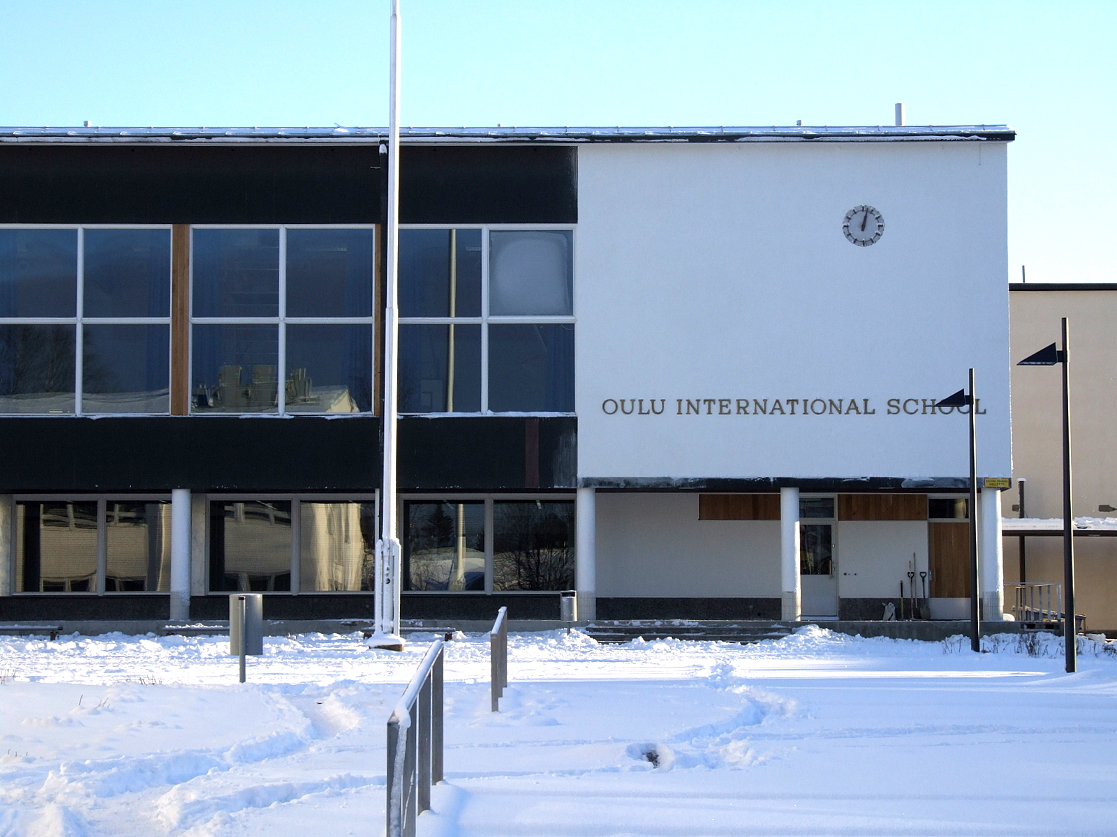 Oulu International School in Oulu, Finland. The building was designed by architects Märta Blomstedt and Matti Lampén, and it was completed in 1961.